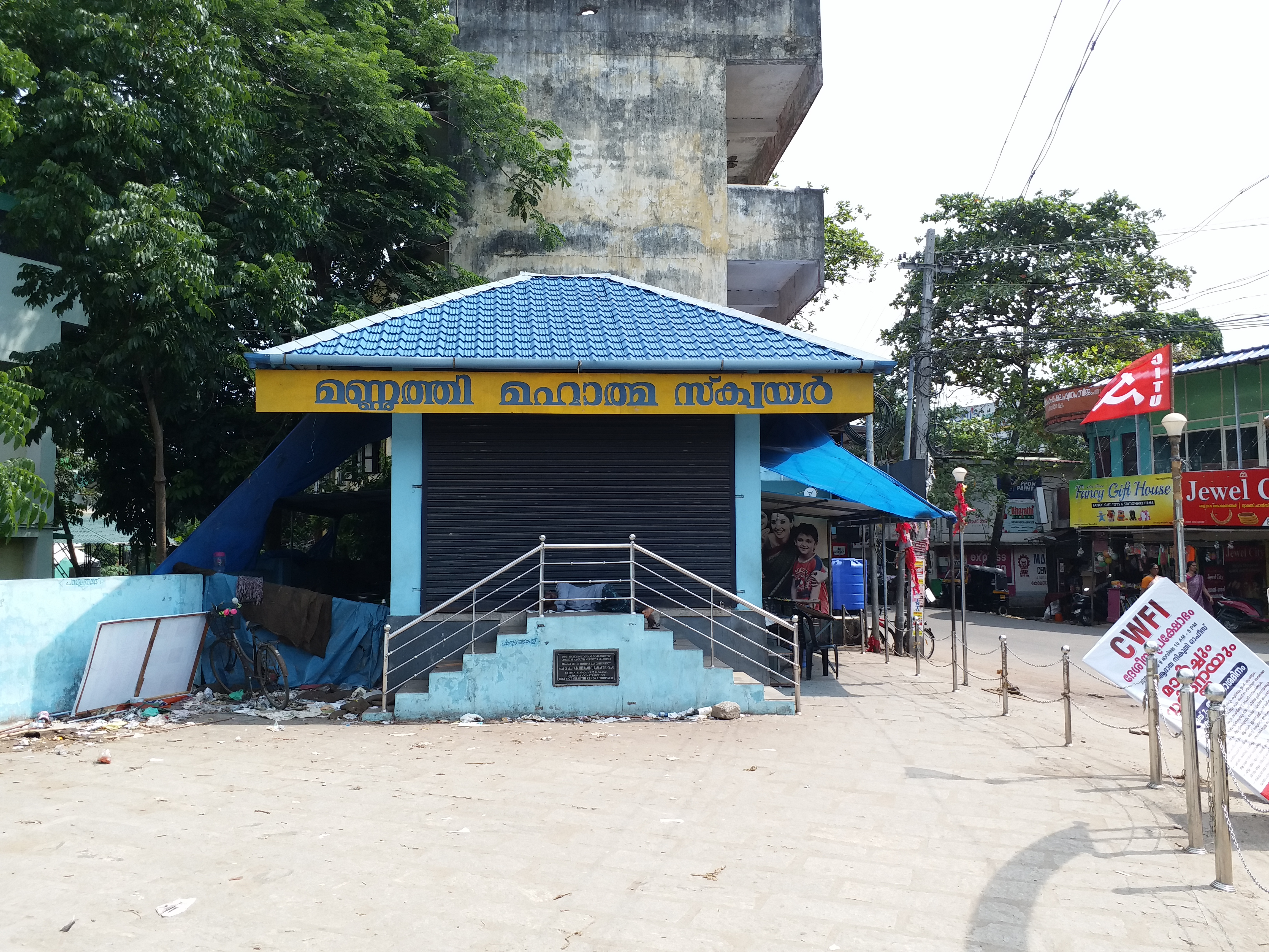 Mahatma Square is a Meeting Place in Mannuthy, It's situated in Mannuthy Centre. Its Include a stage and a open ground tiled by rock stones